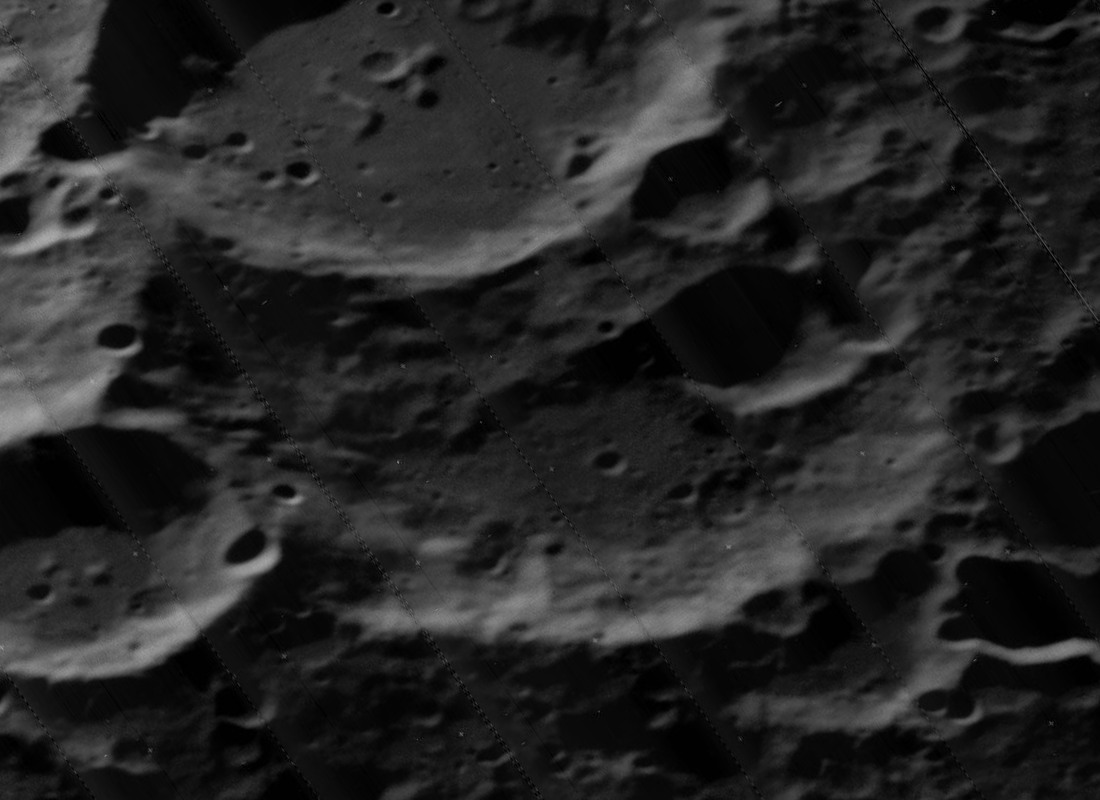 Oblique view of Schlesinger, on the far side of the moon, facing west.